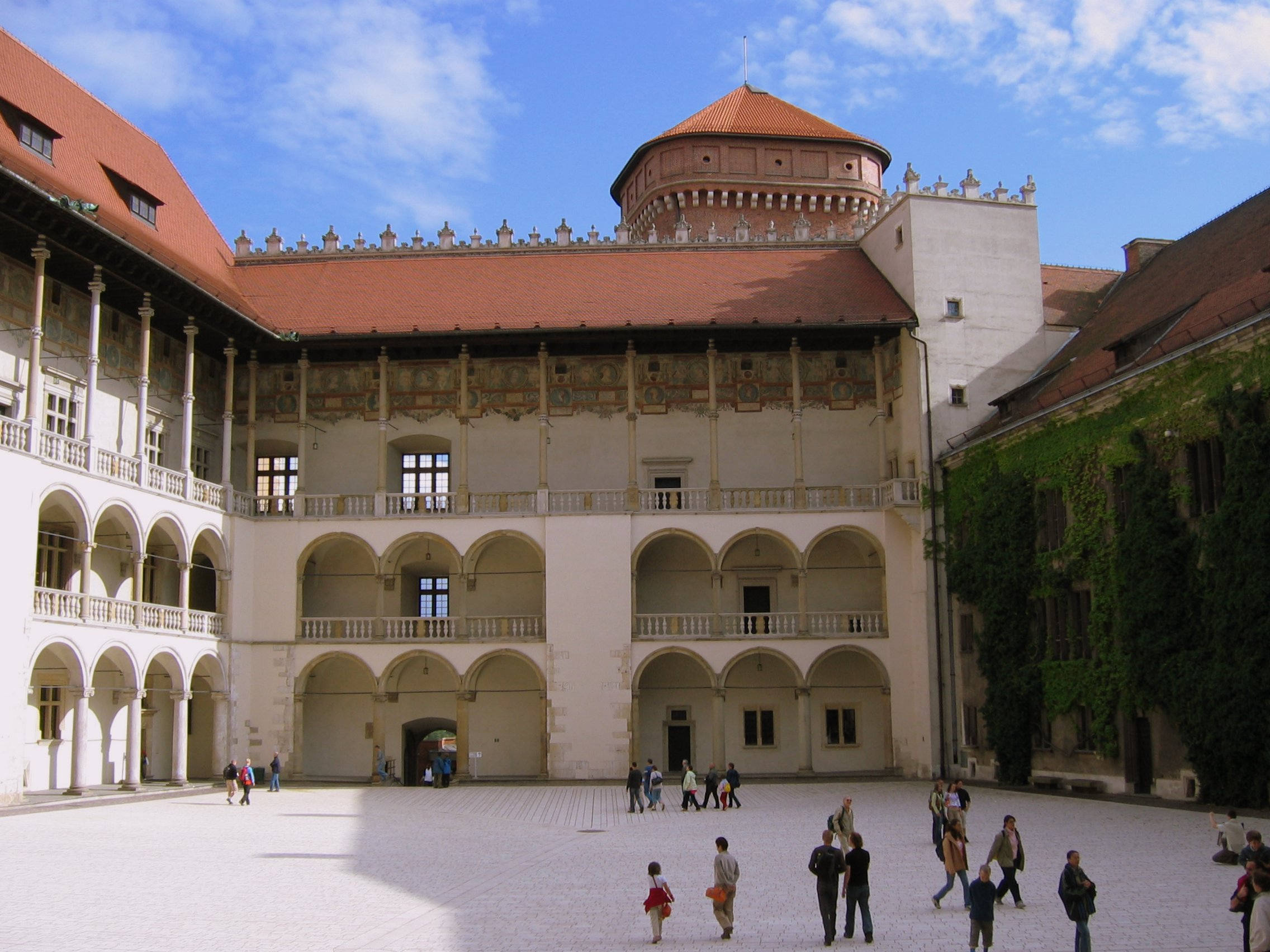 The courtyard of the fortress Wawel in Kraków, Poland